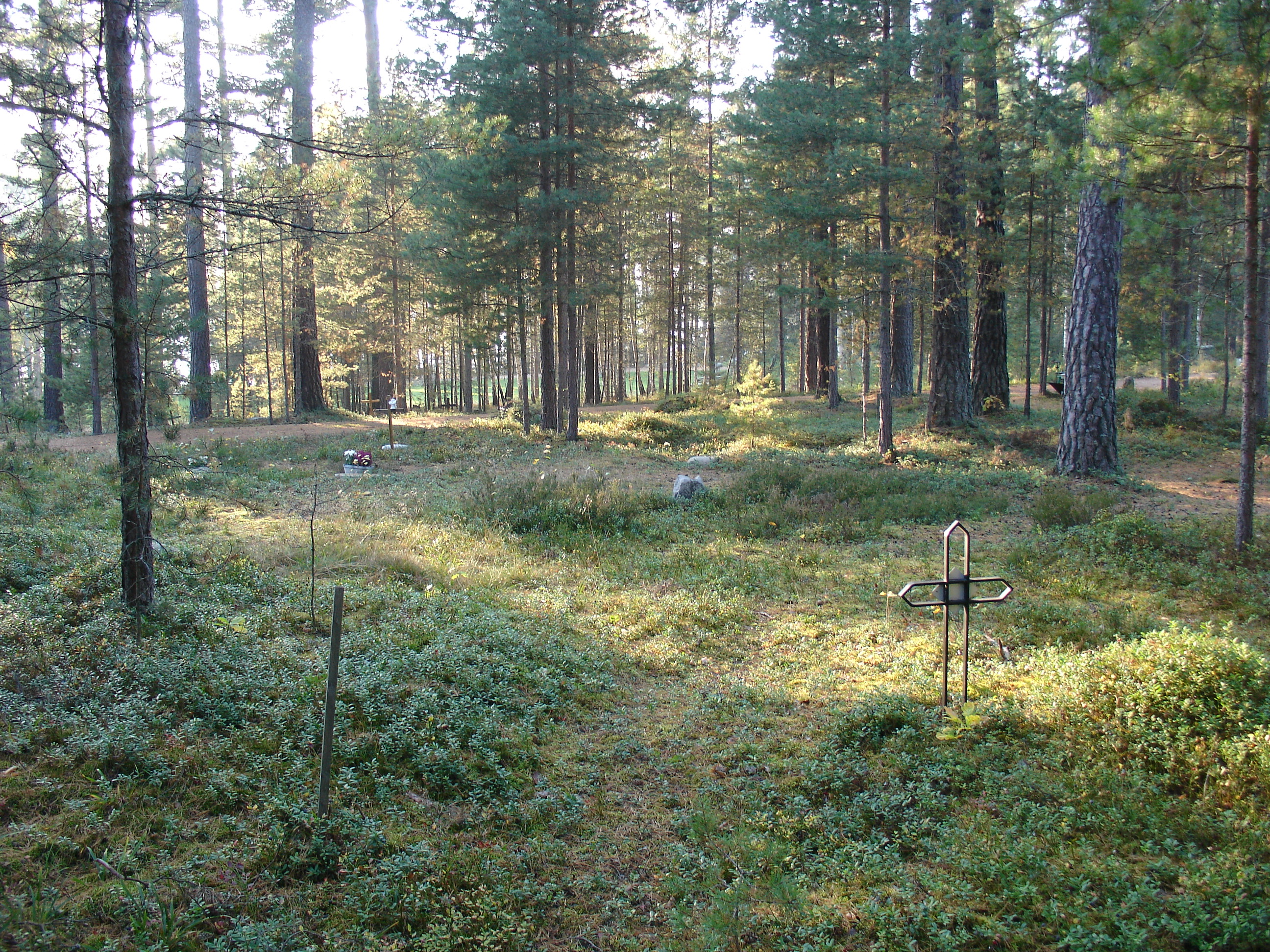 Strandkyrkogården a graveyard in Stockholm, Sweden